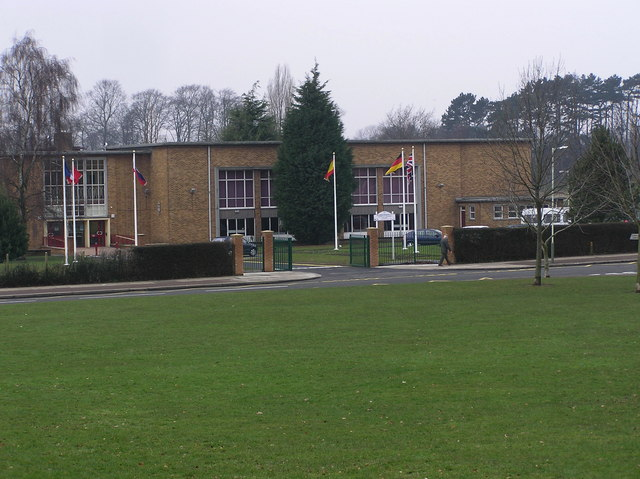 Hummersknott School, Edinburgh Drive.